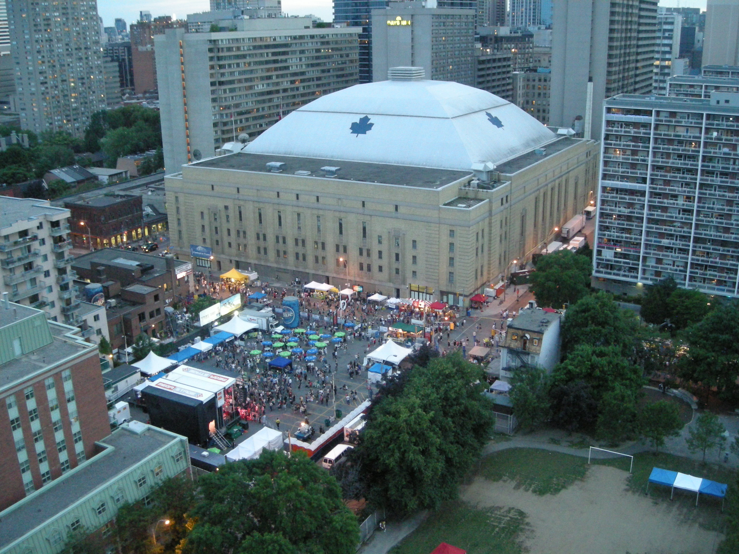 Maple Leaf Gardens during Toronto's Pride Week